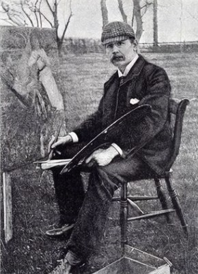 Henry_Herbert_La_Thangue